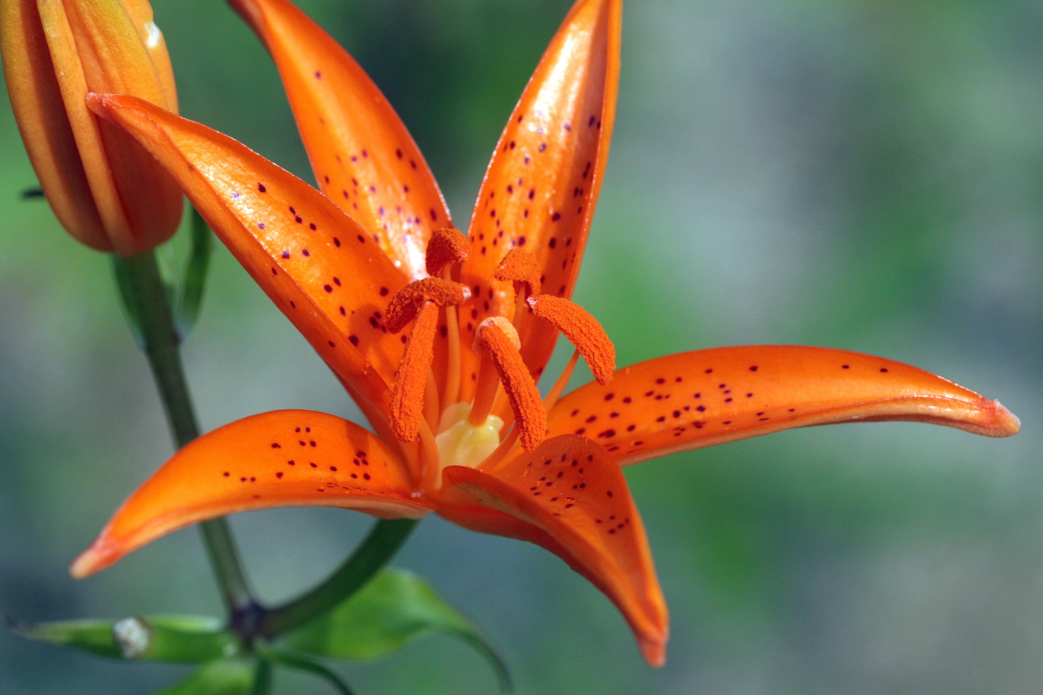 Lilium tsingtauense